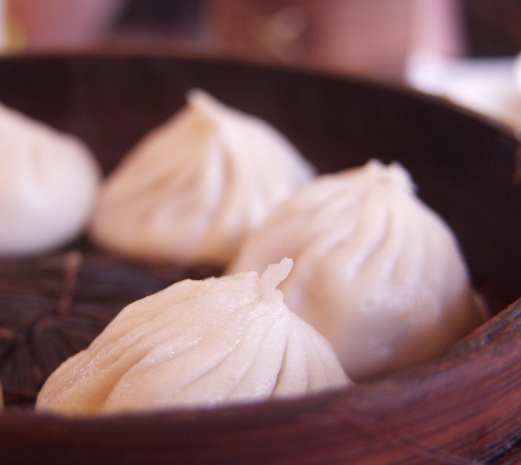 Xiaolongbao